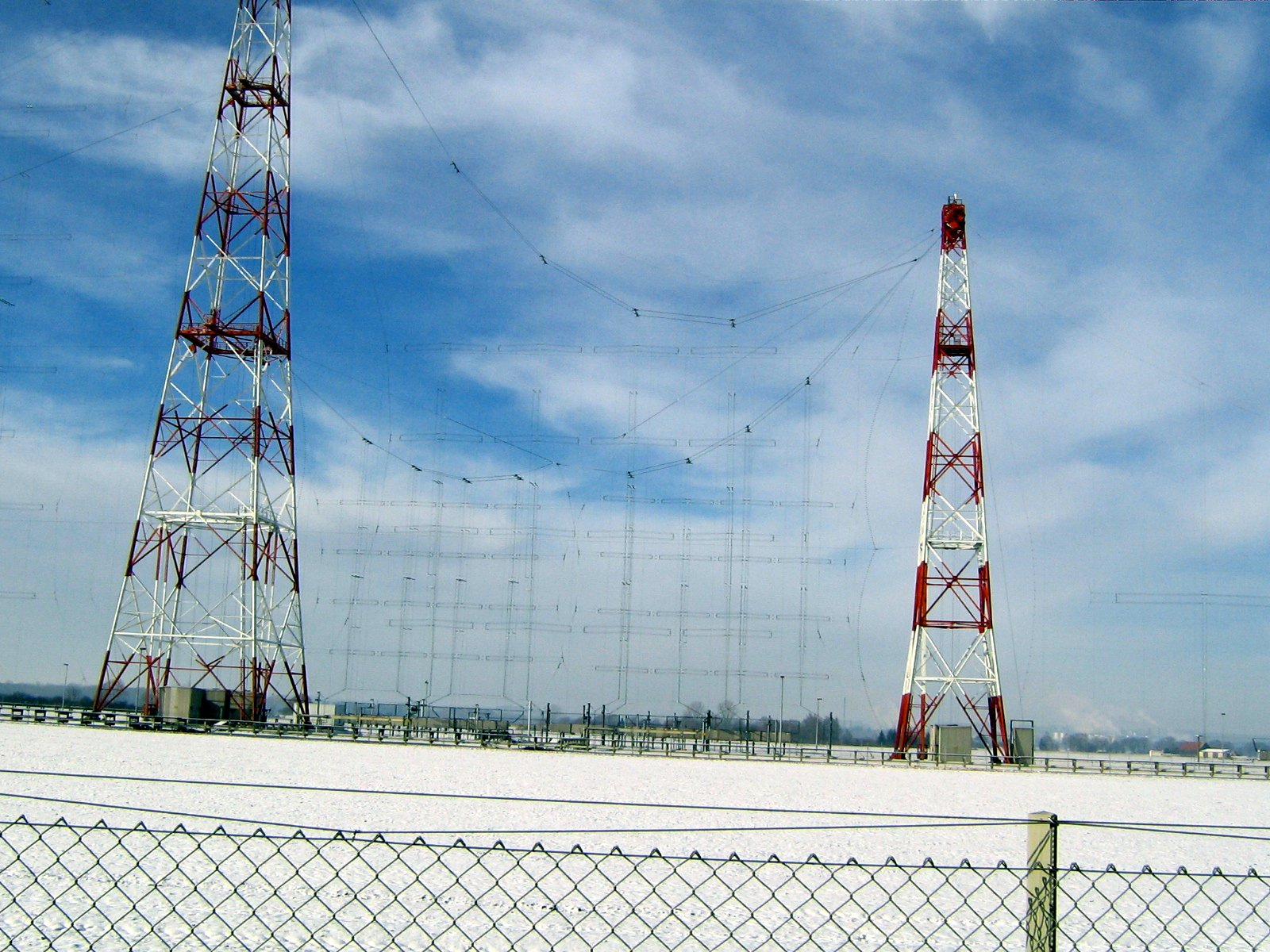 Kurzwellensendeanlage Wertachtal short wave radio